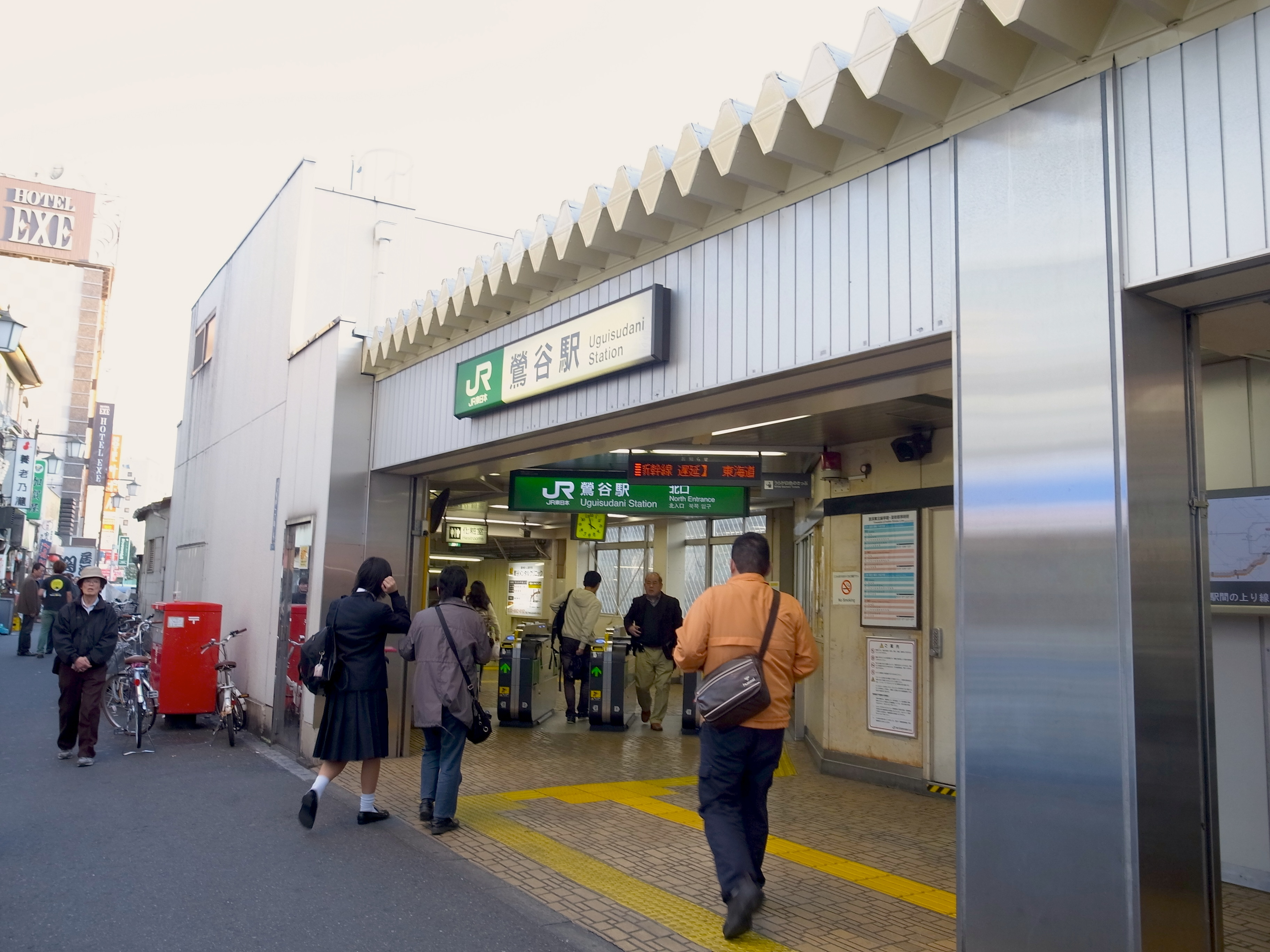 Uguisudani Station north exit